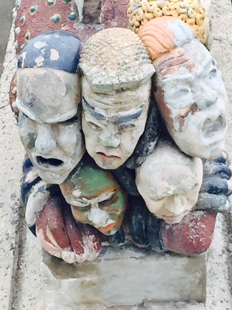 Detail of Light Dispelling Darkness by Waylande Gregory at Roosevelt Park.